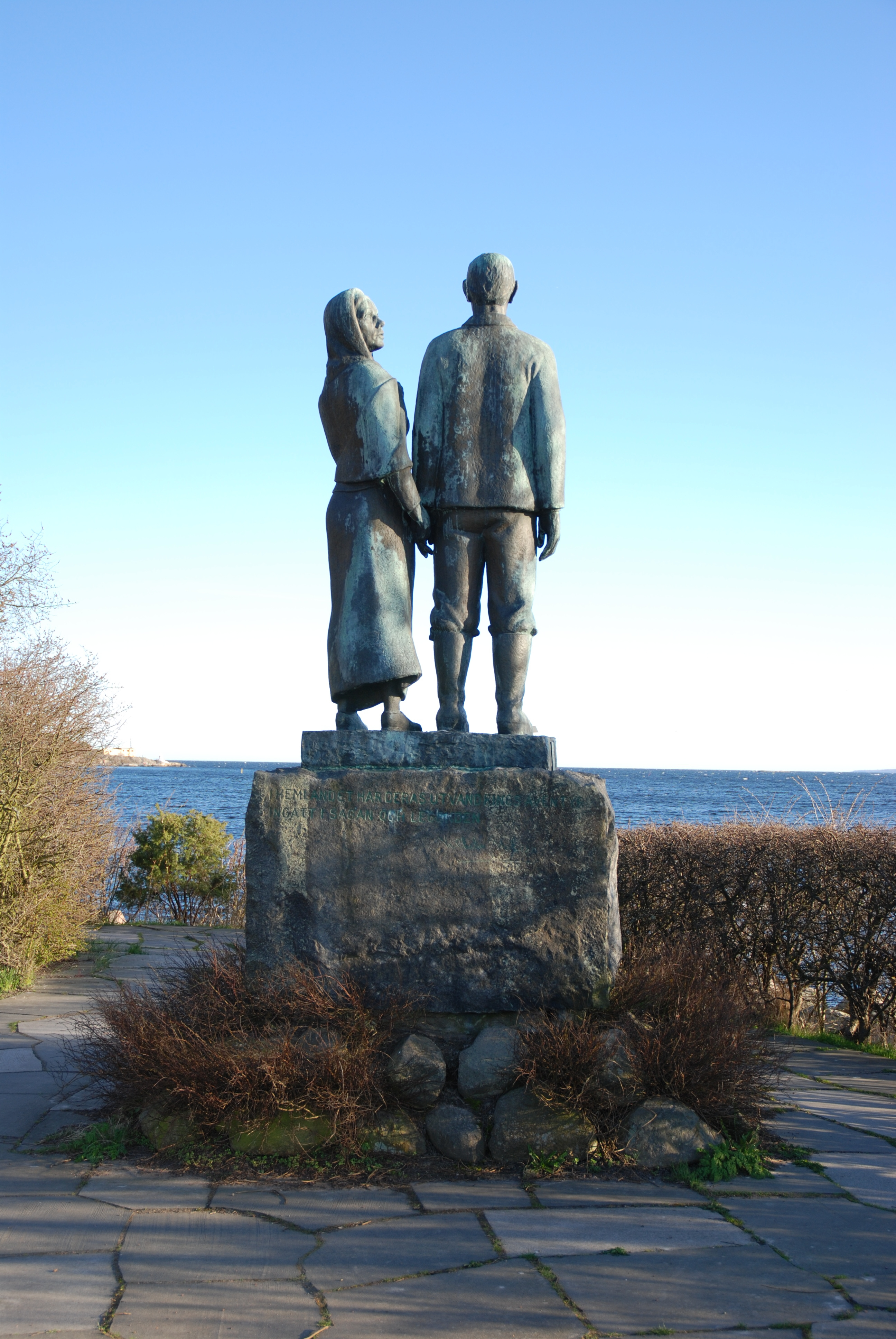 Axel Olsson´s Emigration Monument (Karl-Oskar och Kristina) in Karlshamn, Sweden